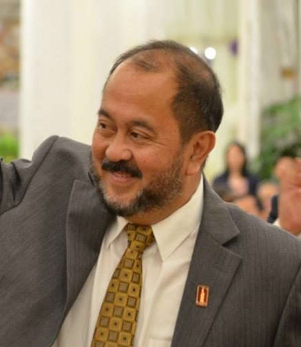 Today in Toronto our Conservative family and the Filipino-Canadian community said goodbye to Senator Tobias Enverga. His unstoppable optimism and sunny personality will surely be missed by all of us. He was the kind of person who could make anybody feel welcome and valued. Always a trailblazer, he was the first Filipino-Canadian Senator and the was the Filipino-Canadian to win election to any office in the City of Toronto and as the first visible minority to win election to the Toronto Catholic School Board. His commitment to his community, his country, and to Canada’s diversity and pluralism will be deeply missed by his many friends in the Senate and in the House of Commons. Today I offered my sincerest condolences to his family, wife Rosemer and their three children Rystle, Reeza and Rocel on behalf of the Official Opposition and our Conservative caucus. May his memory long be a blessing to those who loved him.